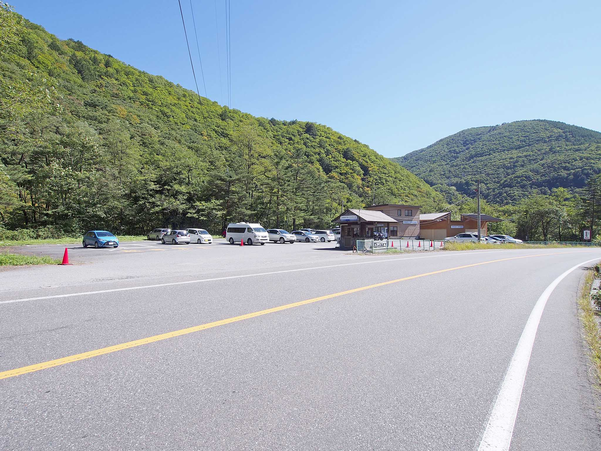 ALPICO Kotsu Sawando Parking Lot, for Park and ride bound for Kamikochi.